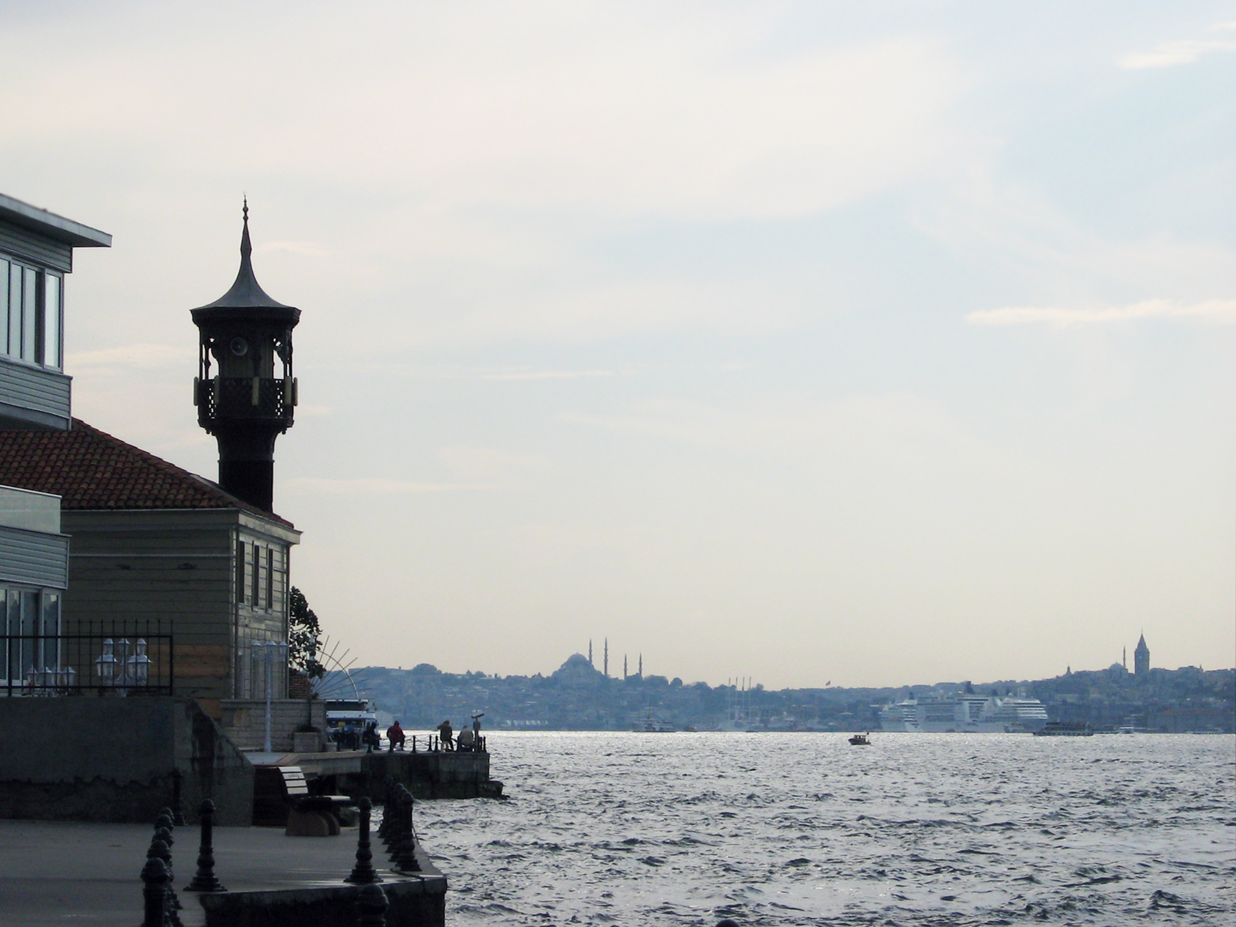 Uryanizade Mosque and the Bosphorus, Kuzguncuk, Istanbul, Turkey